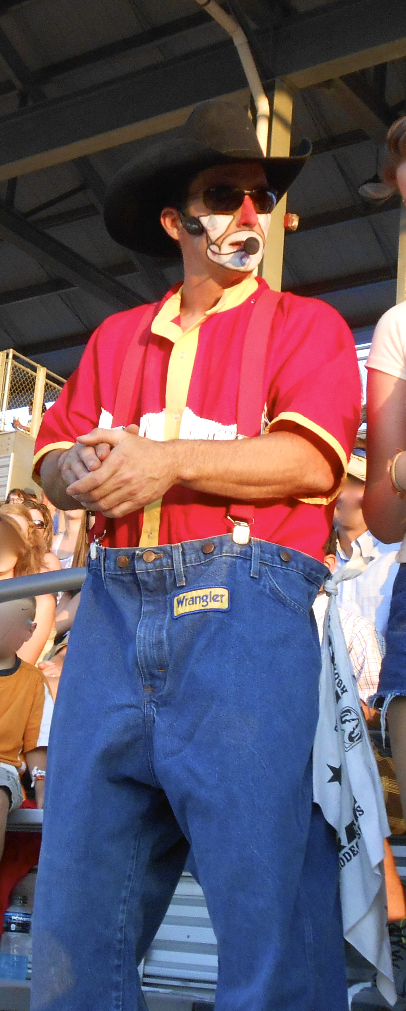 Last Chance Stampede Rodeo, July 25 2013